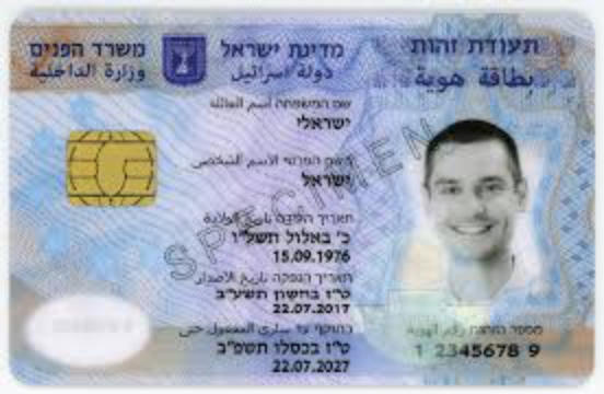 A specimen of the biometric identity cards currently issued to all Israeli citizens from 2017.